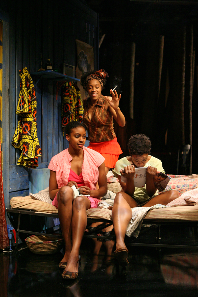 Partial ensemble cast of Ruined performed at the Manhattan Theatre Club. January 21, 2009. Photo by: Caffe Vita